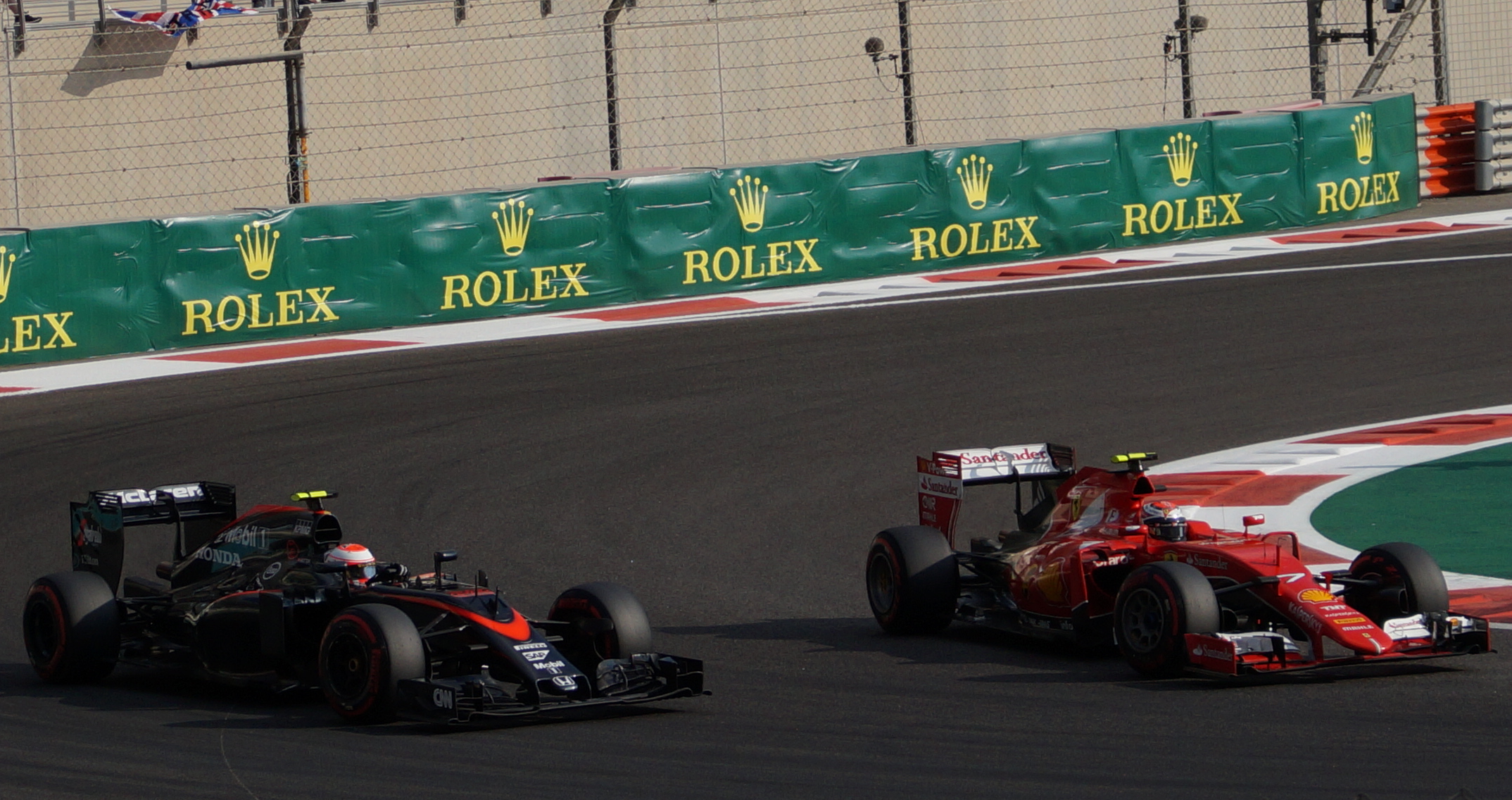 Jenson Button and Kimi Räikkönen at the 2015 Abu Dhabi Grand Prix